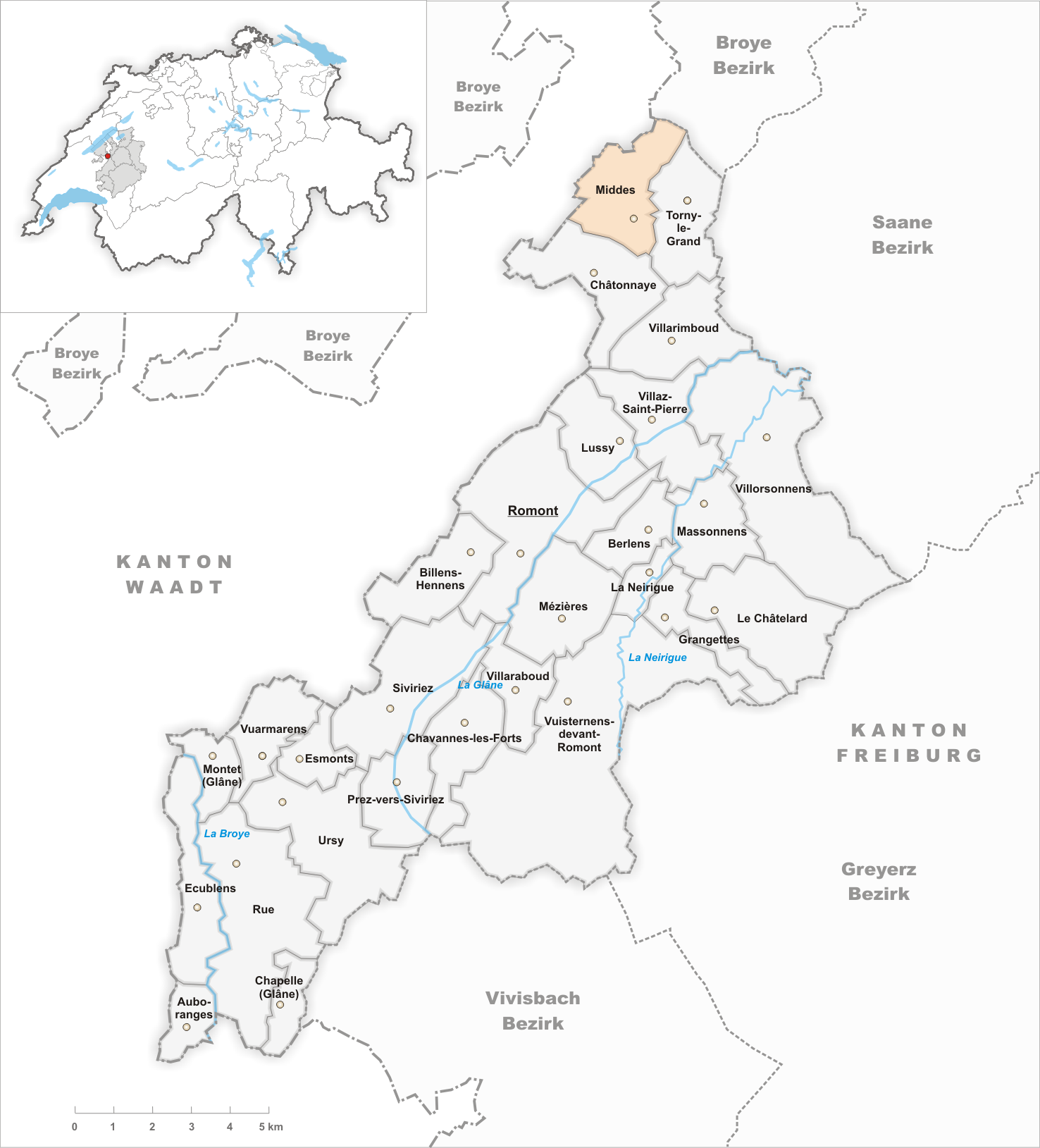 Municipality Middes Artist: Tschubby